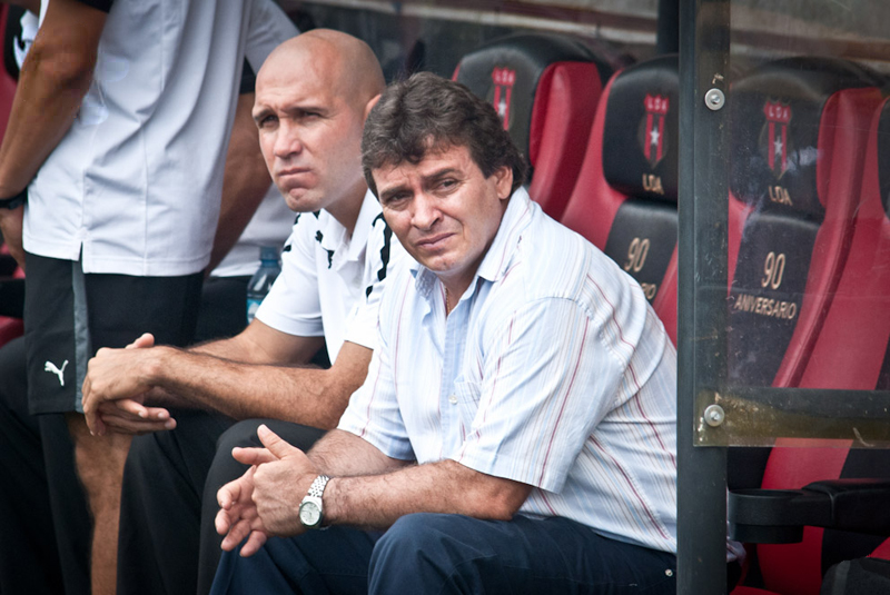 Óscar Ramírez (right) with Luis Antonio Marín (left), during a match between Alajuelense and Pérez Zeledón on September 25th, 2011.